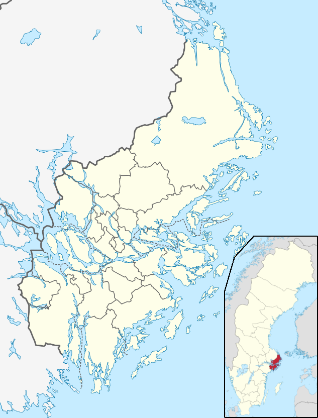 Stockholm County map for pin